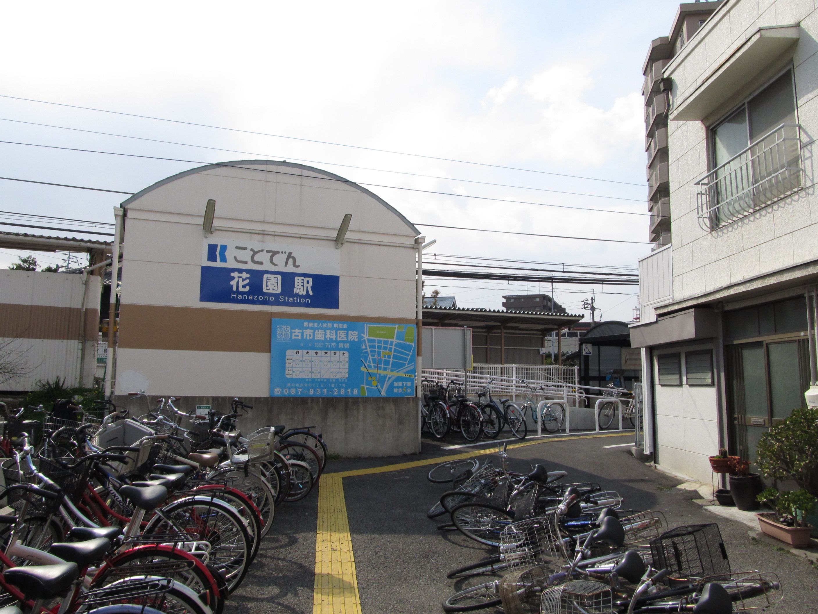 Takamatsu-Kotohira Electric Railroad Nagao Line Hanazono Station Building